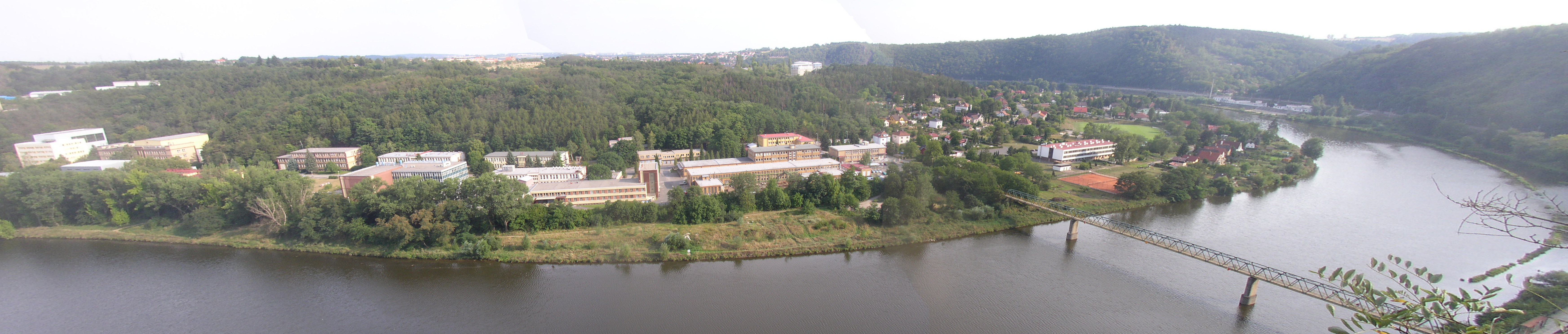 Řež, part of Husinec municipality, Prague-East District, Czech Republic. A general view from the north. Nuclear research centre stretches along the Vltava River in the left and central part of the image. Footbridge to the railway station is visible in the right.